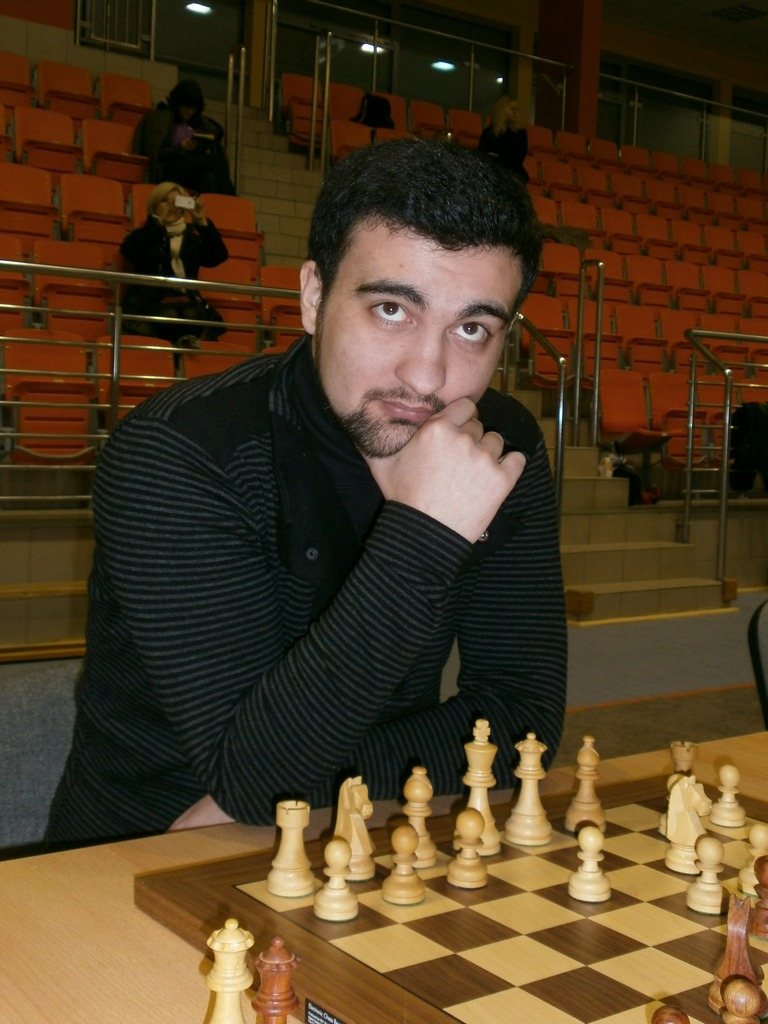 GM Igor Kovalenko playing in the Ferdynand Dziedzic Memorial in Trzcianka